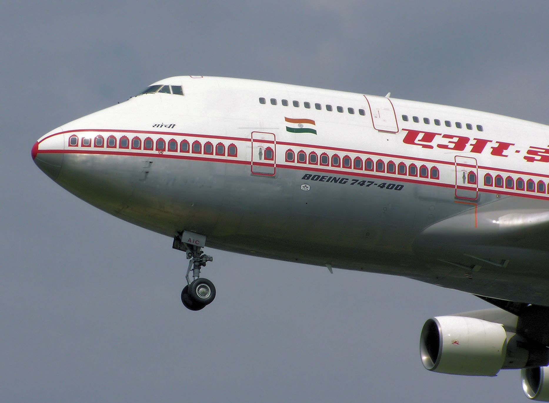 Close-up on the nose of an Air India Boeing 747-400 (VT-AIC) landing at London Heathrow Airport, England.